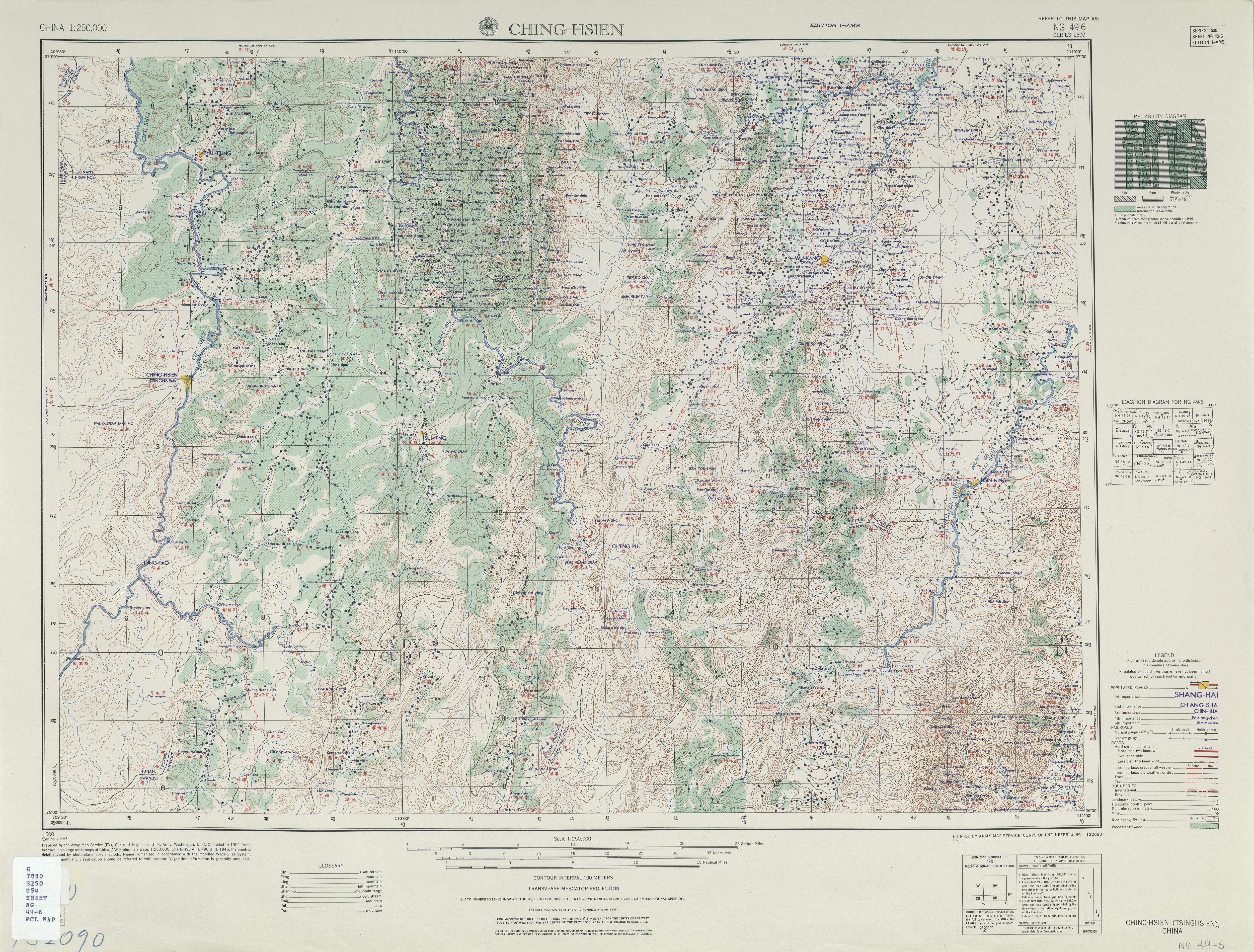 China AMS Topographic Maps